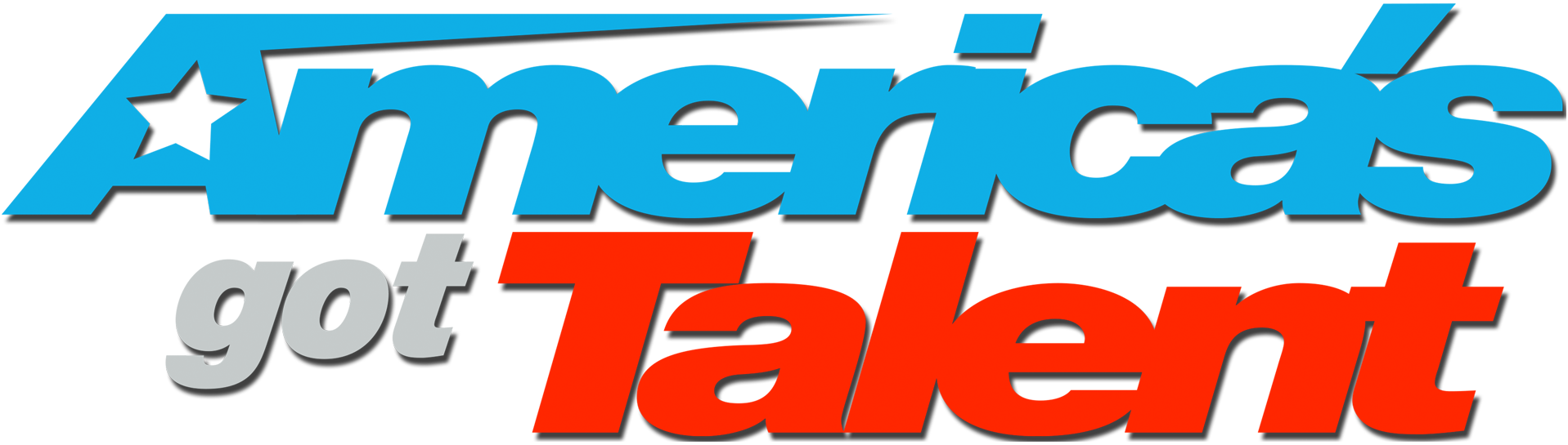 Logo for America's got Talent.